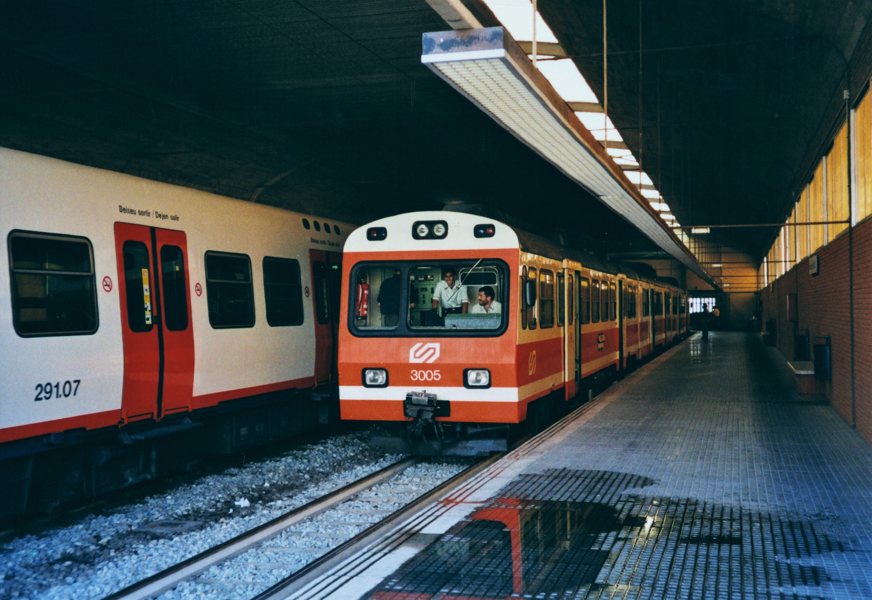 The DMU of FGC with cars 3005-4001-3006 in Manresa Baixador, providing the special service to the Parc de l'Agulla of Manresa on the occasion of the festival.